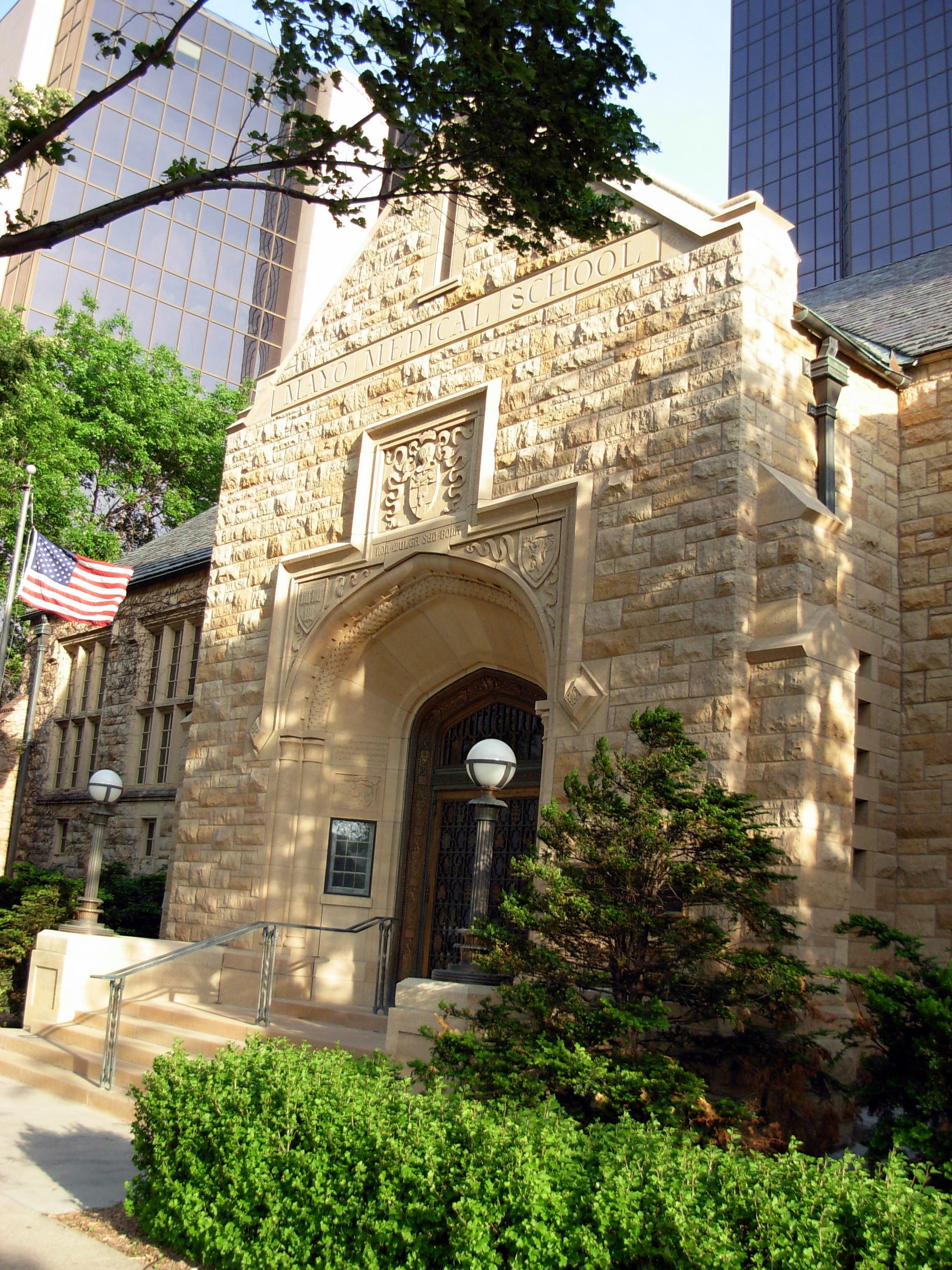 Mayo Medical School Building on Second Street SW in Rochester, Minnesota